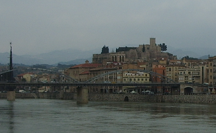 View of Tortosa, Spain, picture taken by Dr. Karl Schlemmer at March 16th, 2006